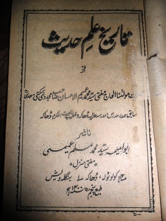 A book on the method of Hazz